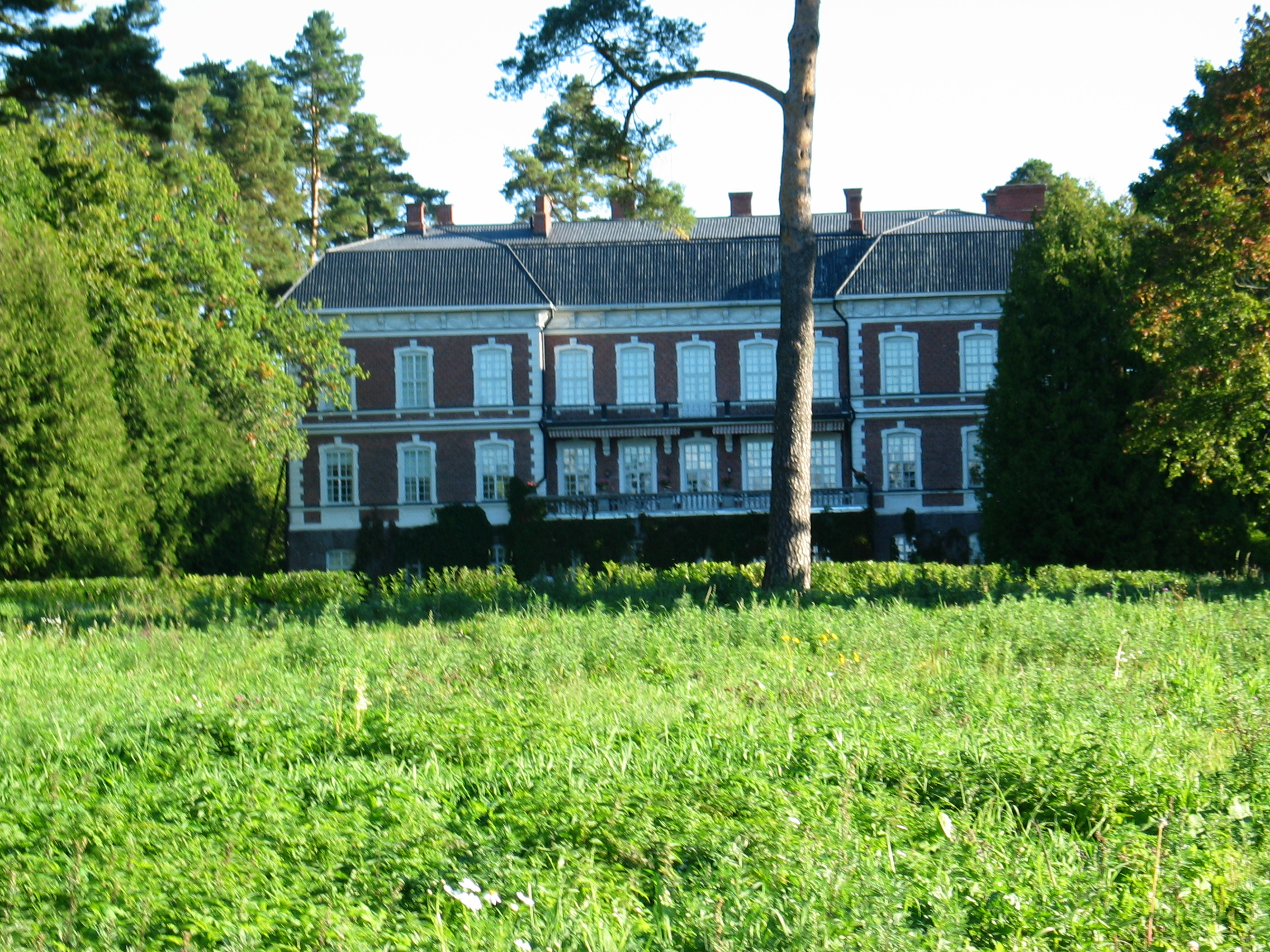 Vanaantaka manor in Janakkala, Finland.